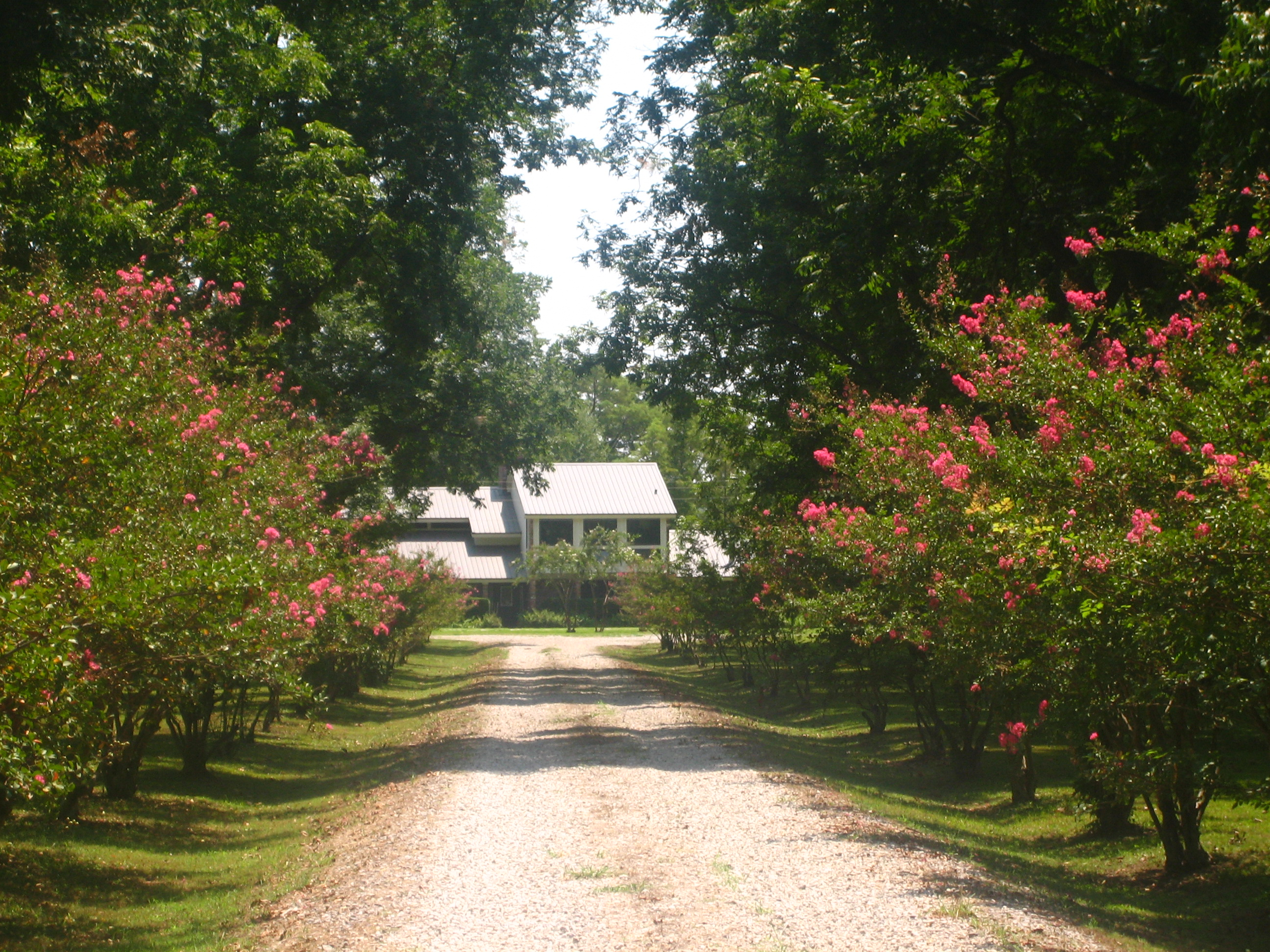 Lakefront home on Lake Bruin, St. Joseph, LA Picture_380.jpg